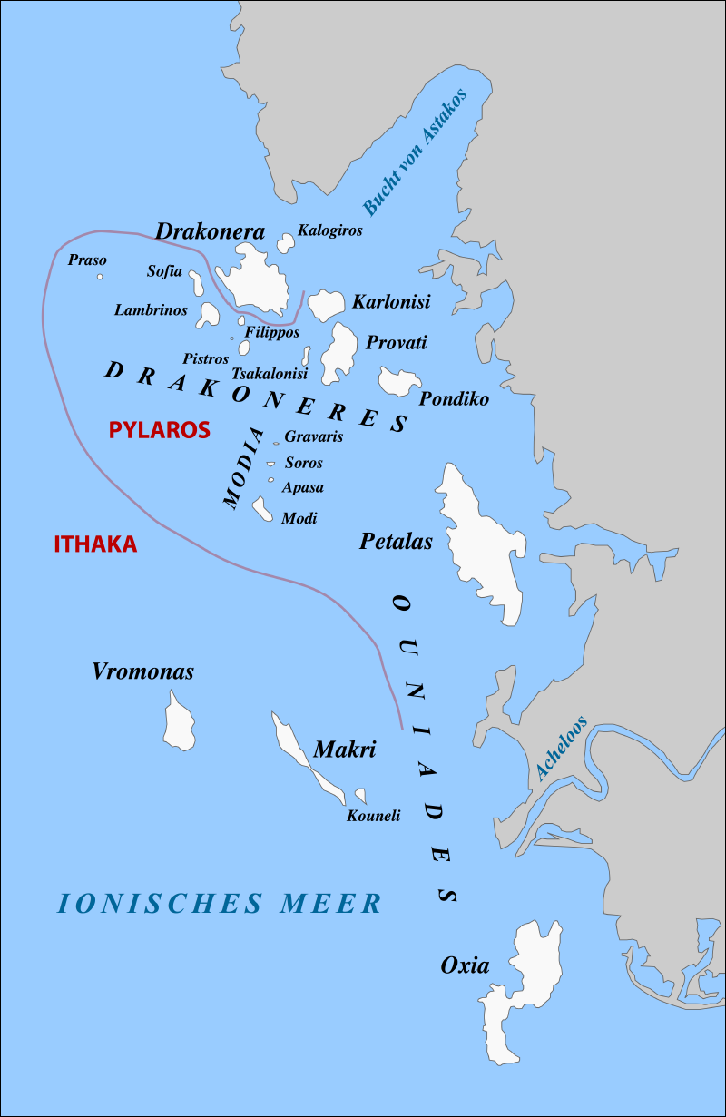 Echinades Archipelagos, Greece (German)